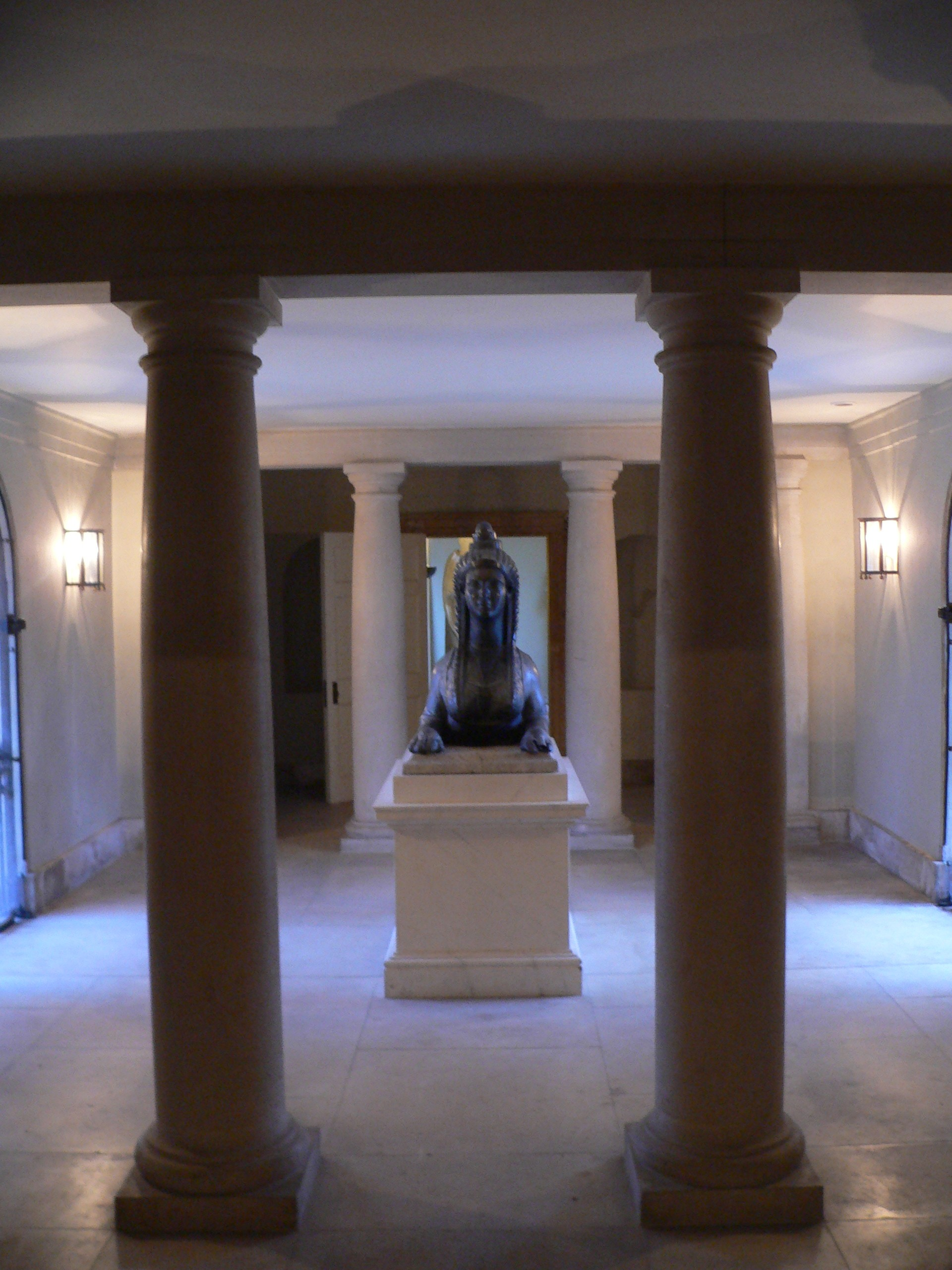 The Lower Link Building containing a lead sphinx